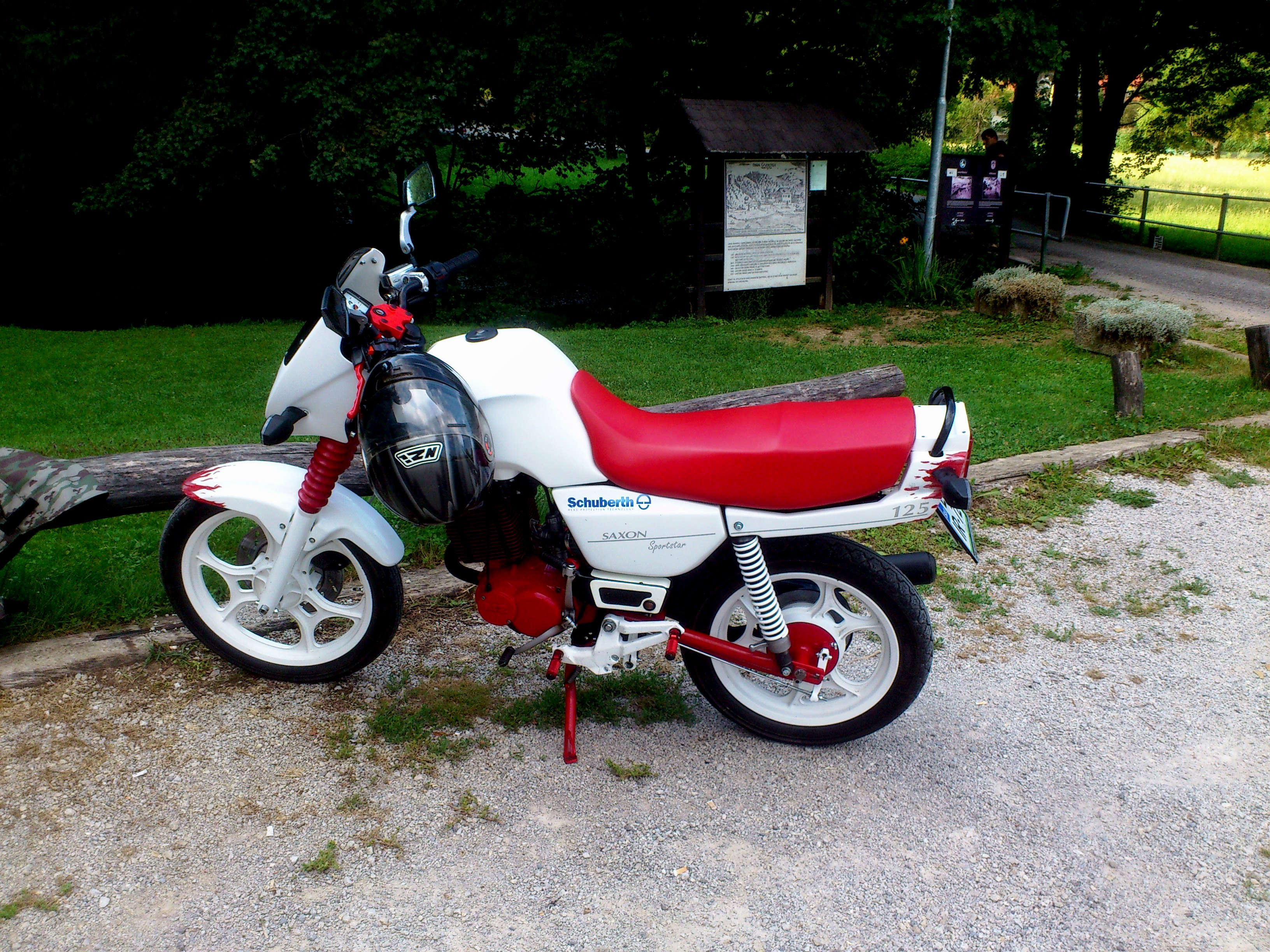 A fully-renovated MZ ETZ 125 Saxon Sportstar 1994.